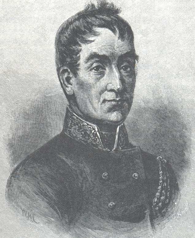 Illustration from Volume I of "The Picturesque Atlas of Australasia" by Andrew Garran, 1888